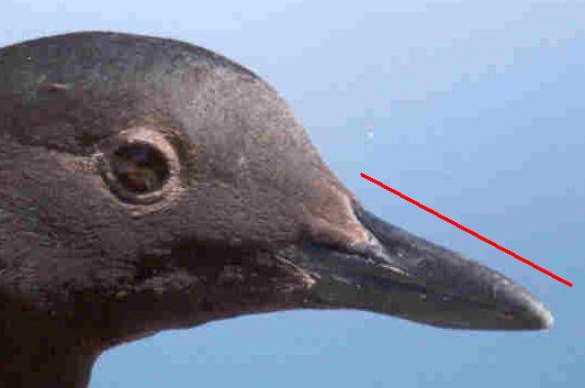 Pigeon Guillemot culmen. Crop of File:Pigen_guillemot.jpg. The red line indicates the length of the Culmen.